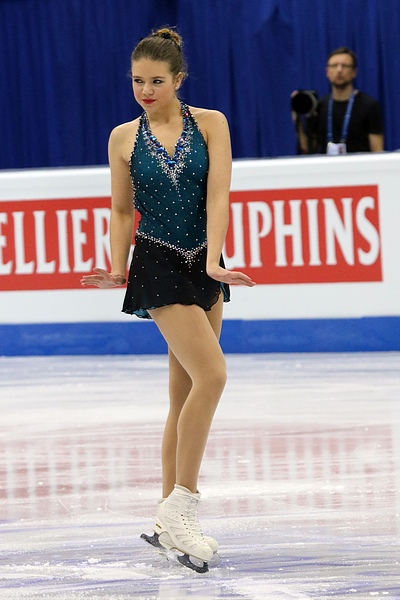 Dutch figure skater Niki Wories at the 2016 European Figure Skating Championships.